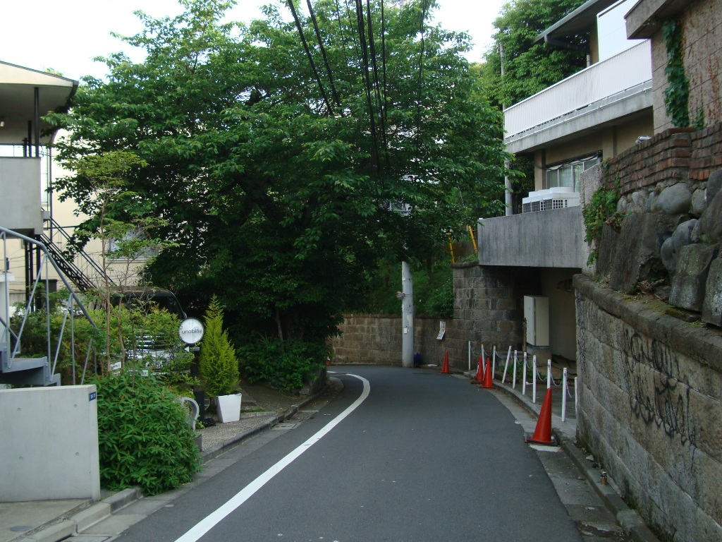 Nekko-zaka street at Onden, Tokyo (Jingu-mae 5, Shibuya city)